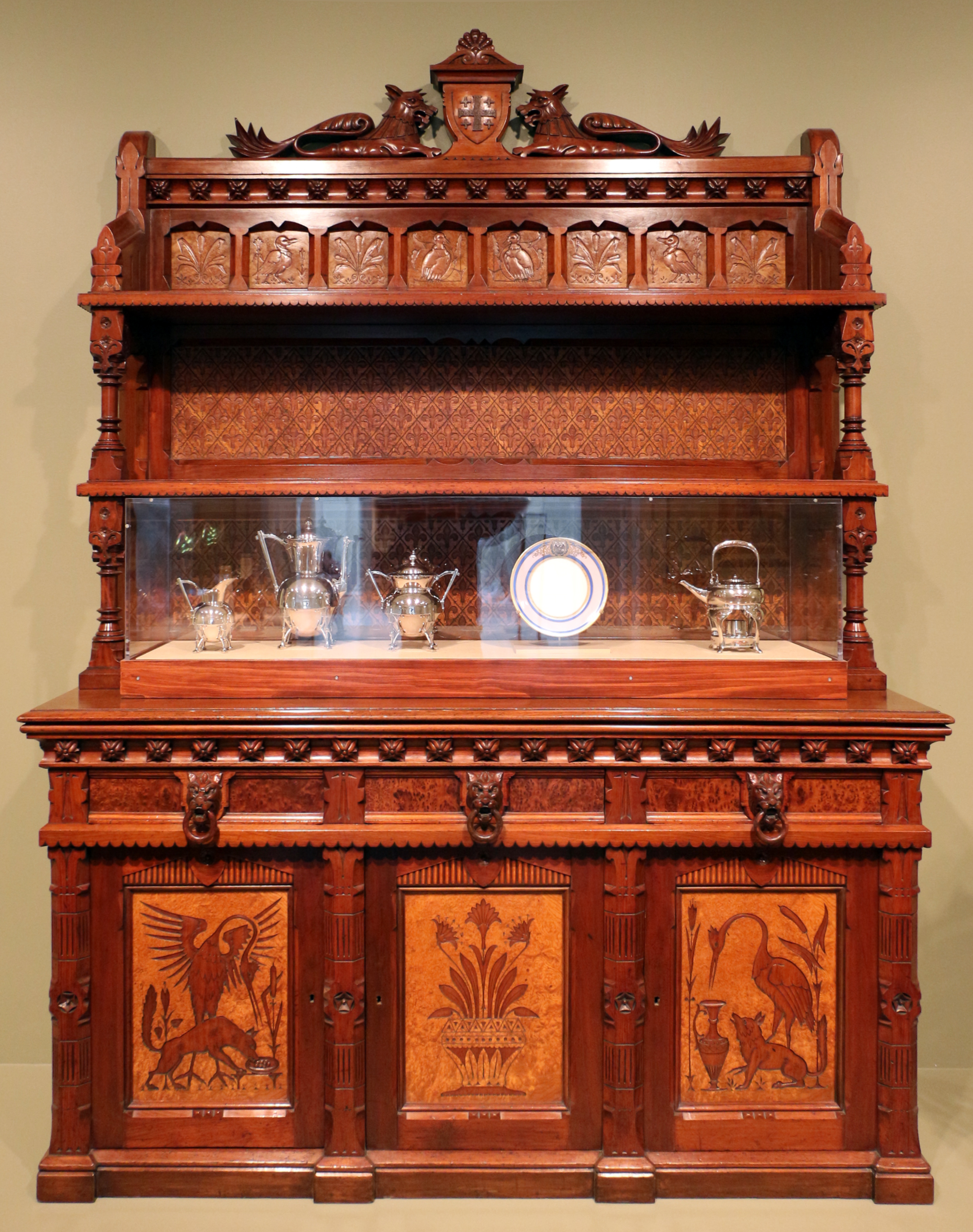 American furniture in the Art Institute of Chicago